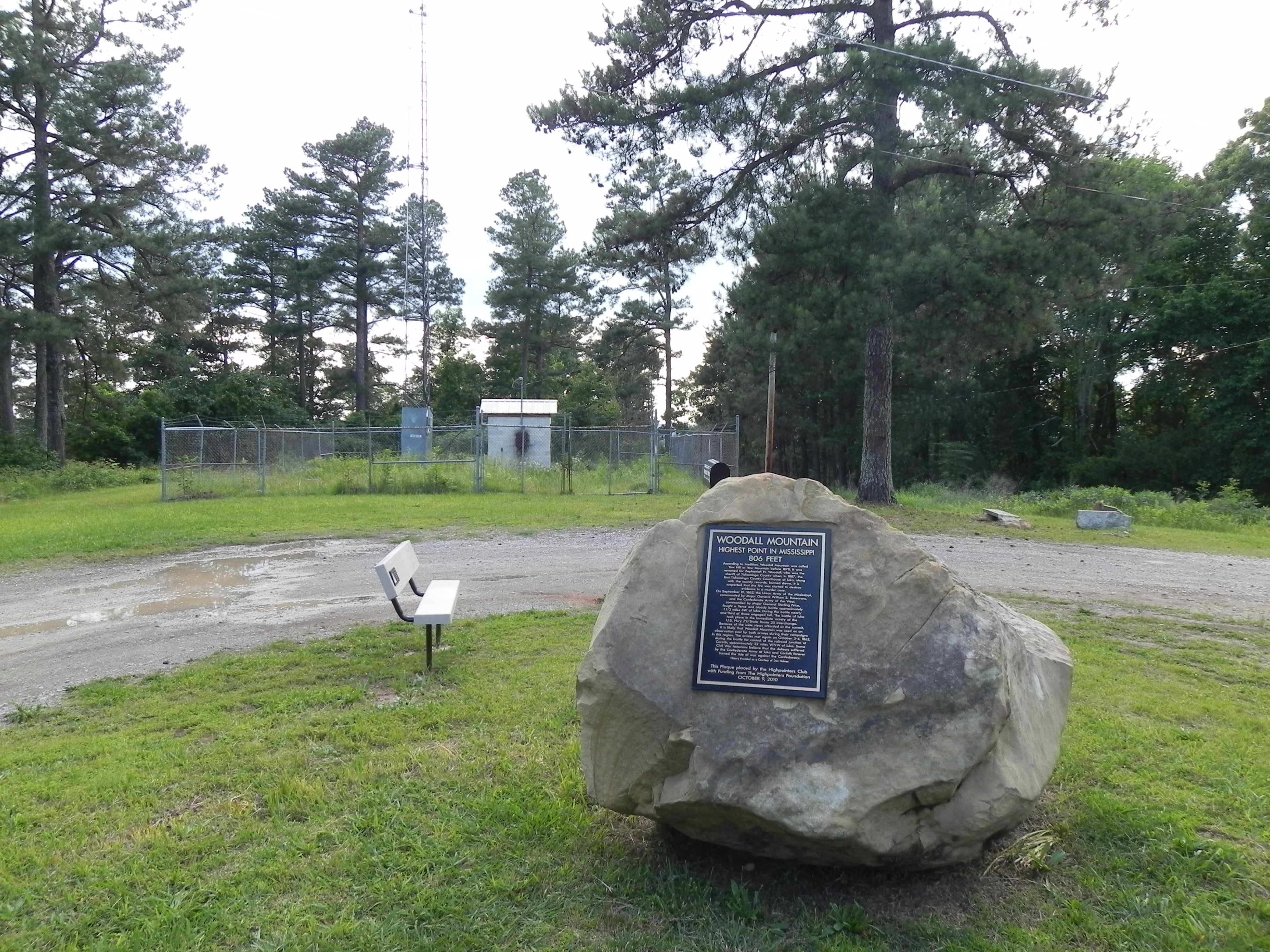 The summit of Woodall Mountain, the highest point in Mississippi